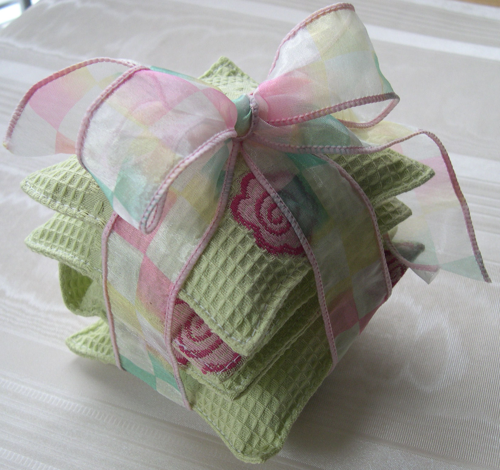 Lime-ade Flowers Lavender Sachets